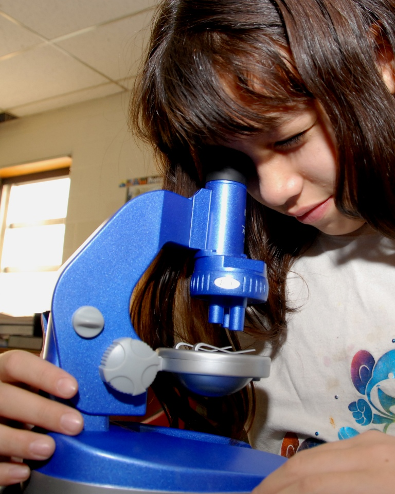 Garden School students are inquisitive and curious and are encouraged to explore the world around them and build their creative and critical thinking skills.